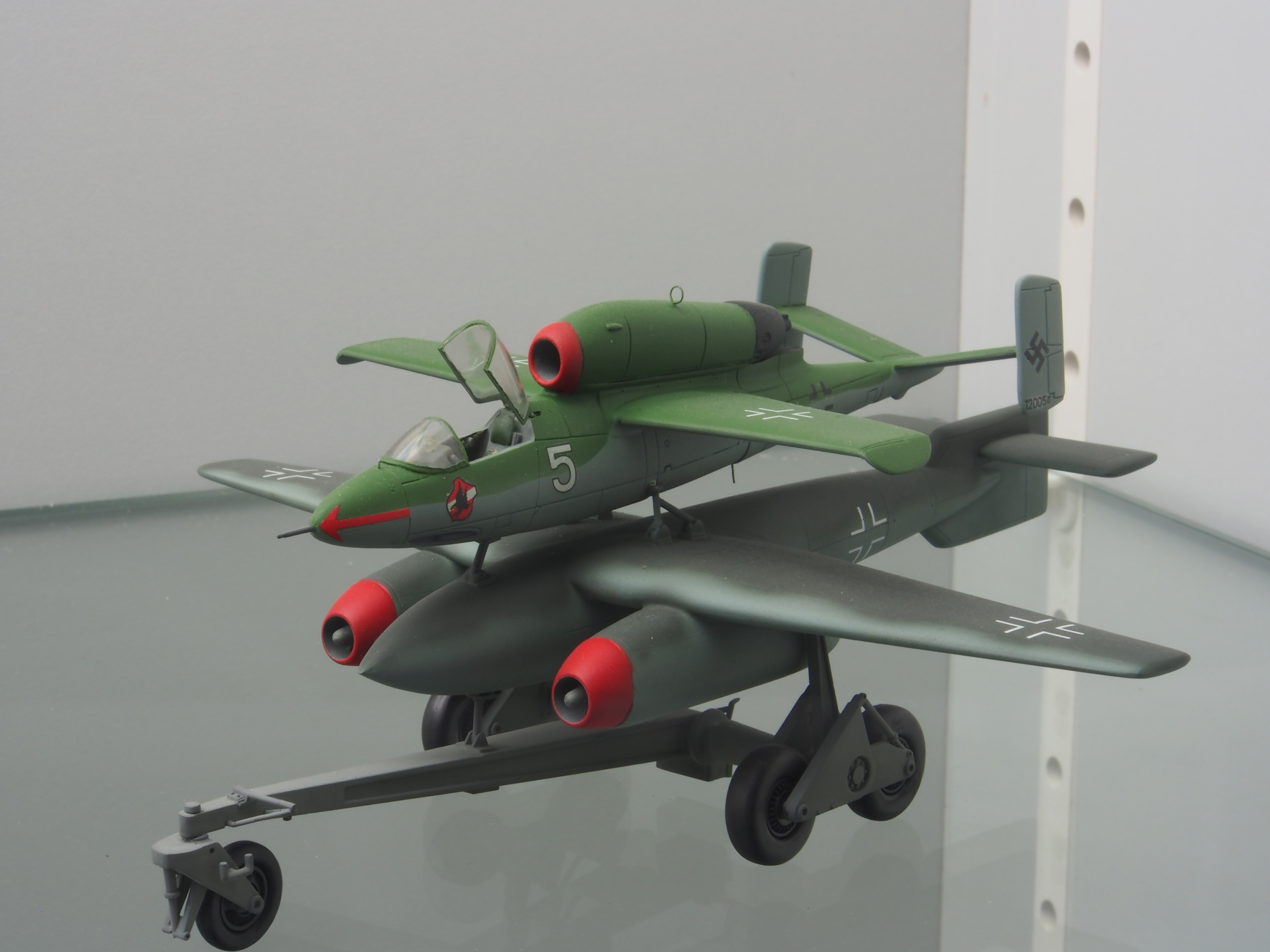 HE 162 mit Bombe (Heinkel He 162 & Arado E 377a)